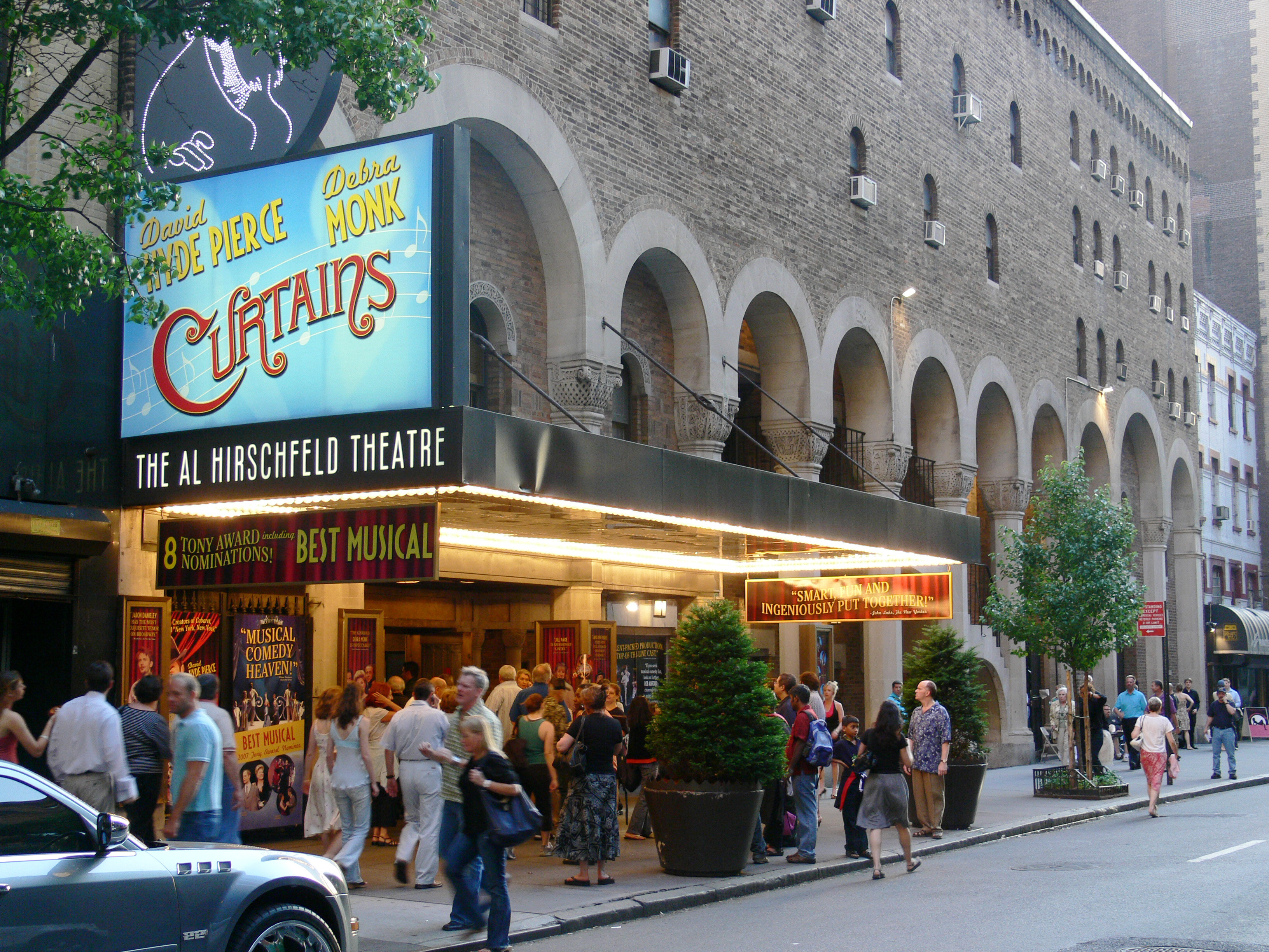 Al Hirschfeld Theatre, showing the musical Curtains 302 West 45th Street, Manhattan, New York City